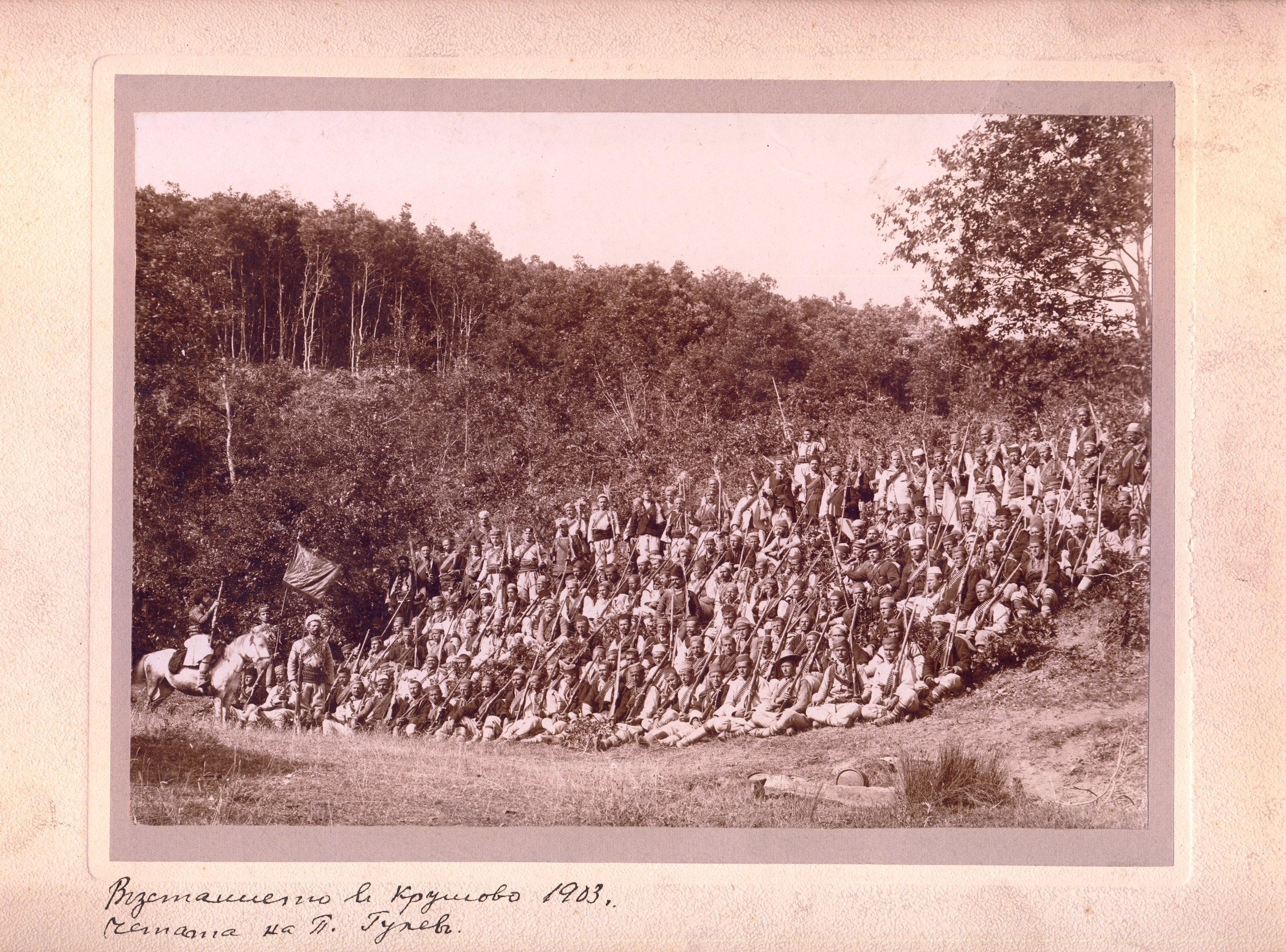 A photo of the squad of Pitu Guli near Birino, 1903